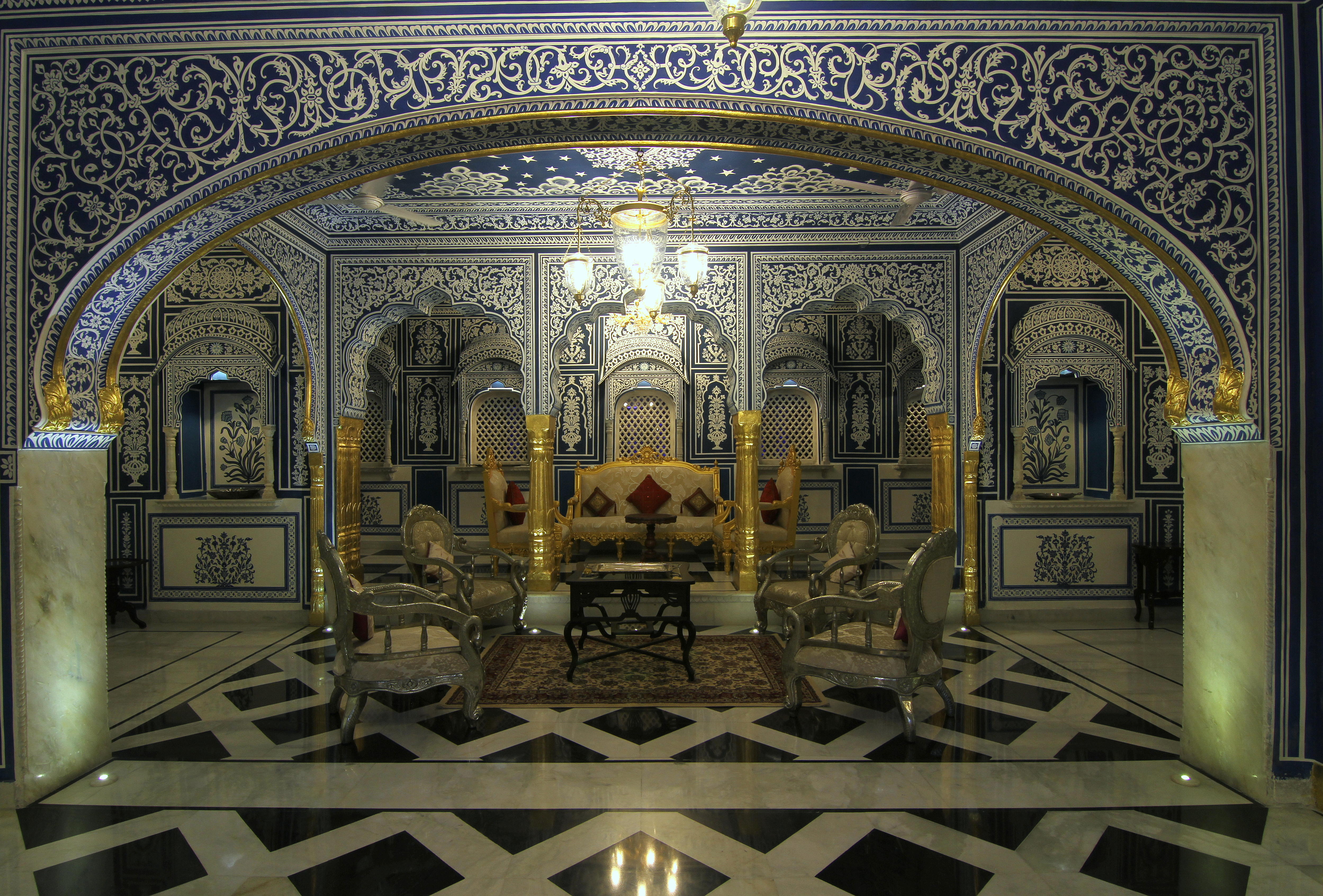 Shekhawati Frescoes and Hand Painted, Badal Mahal of Shahpura Haveli, Shahpura